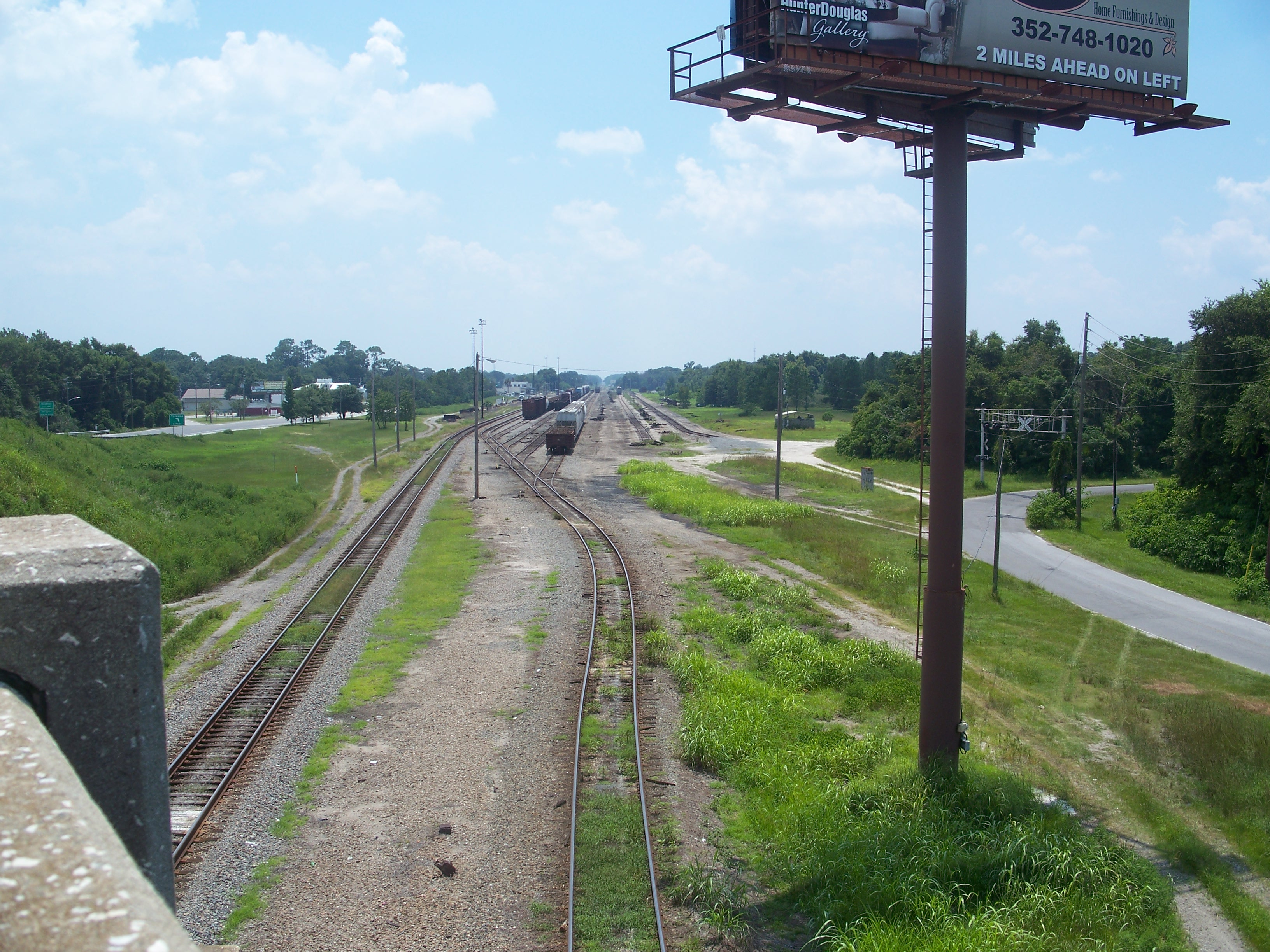 Wildwood, Florida: Rail tracks, looking north from the US 301 bridge.